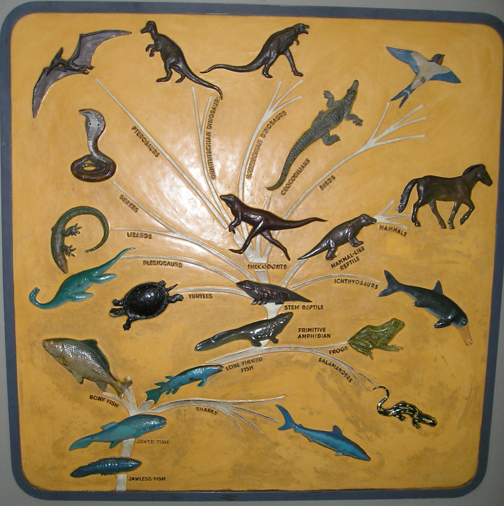 Depiction of the "Tree of Life" showing evolution at work, from the old dinosaur gallery at the Royal Ontario Museum, Toronto.